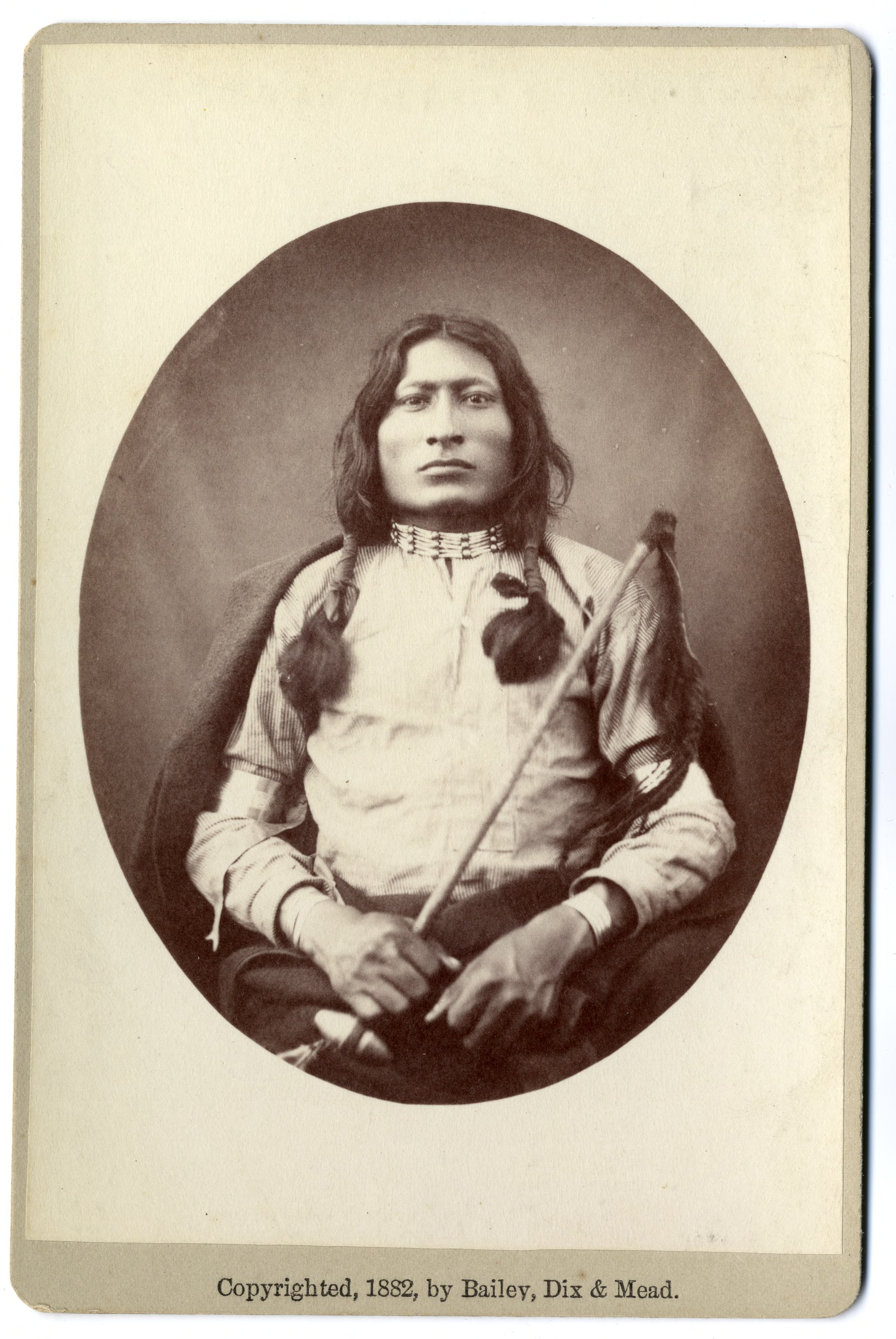 Albumen print cabinet card of waist-length seated portrait of One Bull (1853-1947)